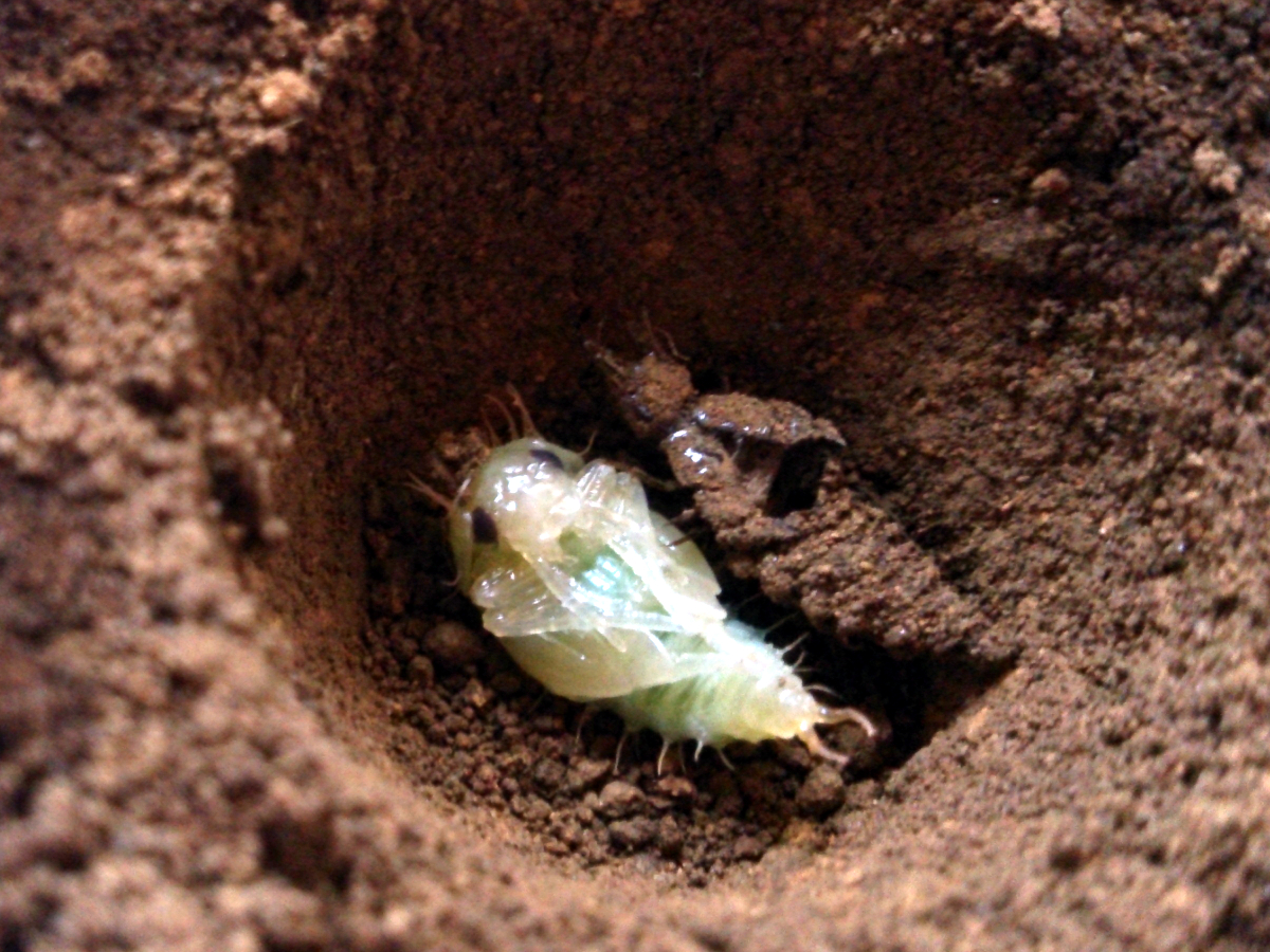 Pupa of Hydrochara affinis and its larva skin.